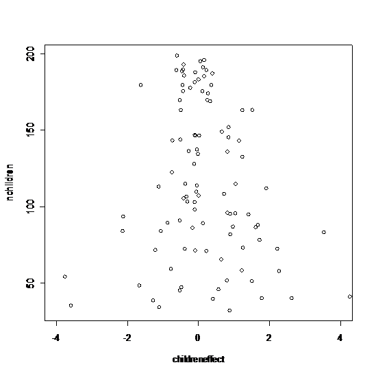 a funnelplot created to visualize the filedrawer problem